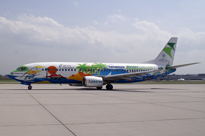 Binter Canarias Boeing 737-400 EC-INQ at Stuttgart Airport. This aircraft was leased from the now defunct Futura International Airways during the 2008 summer season.